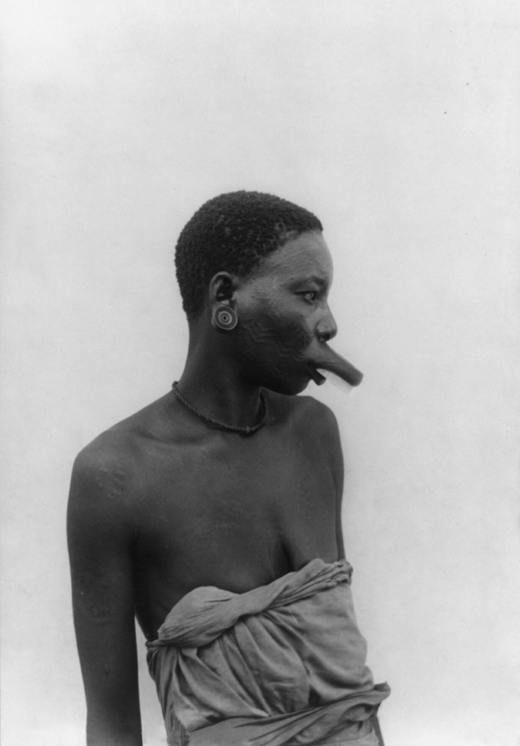 Makonki woman, Mikindani, Tanganyika. Half lgth, facing right; woman with upper lip stretched out.